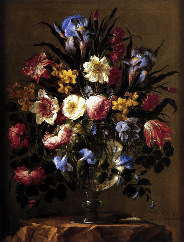 Vase of Flowers